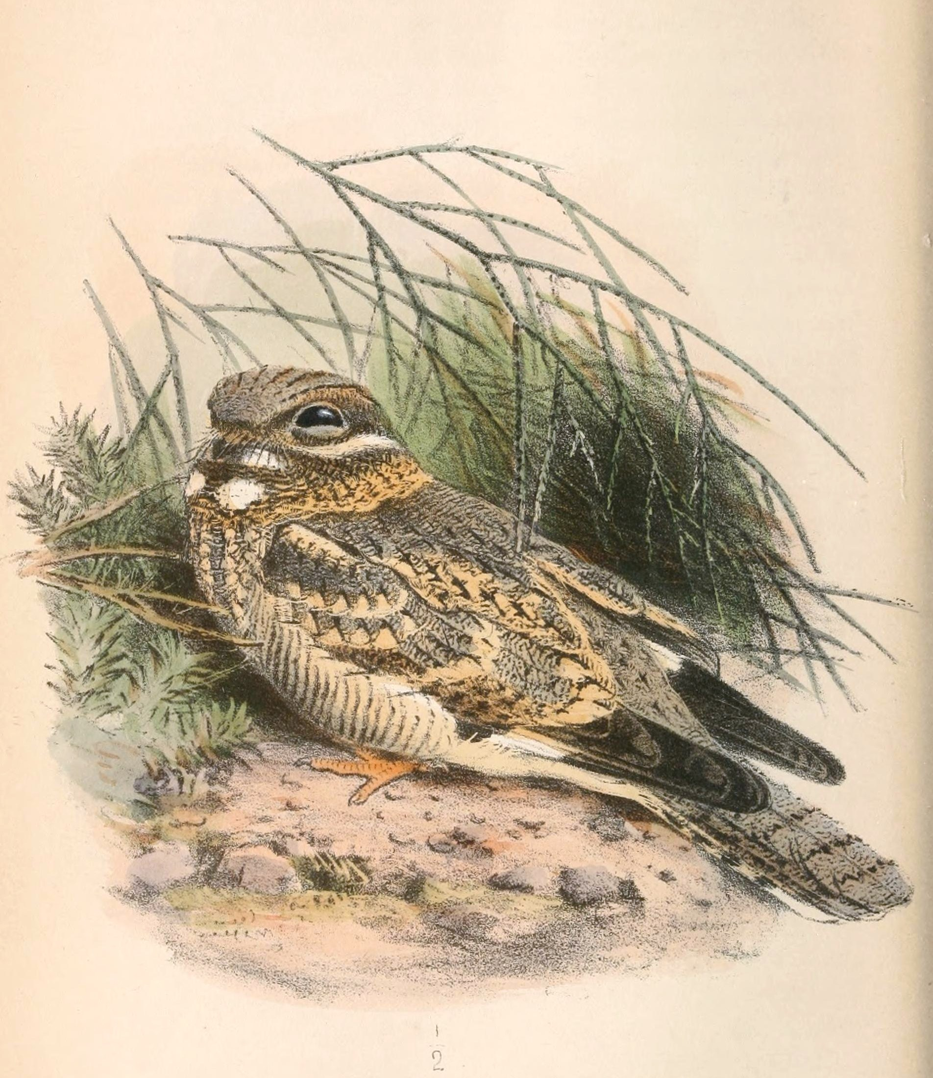 « Caprimulgus tamaricis » = Caprimulgus nubicus tamaricis (Subspecies of Nubian Nightjar)